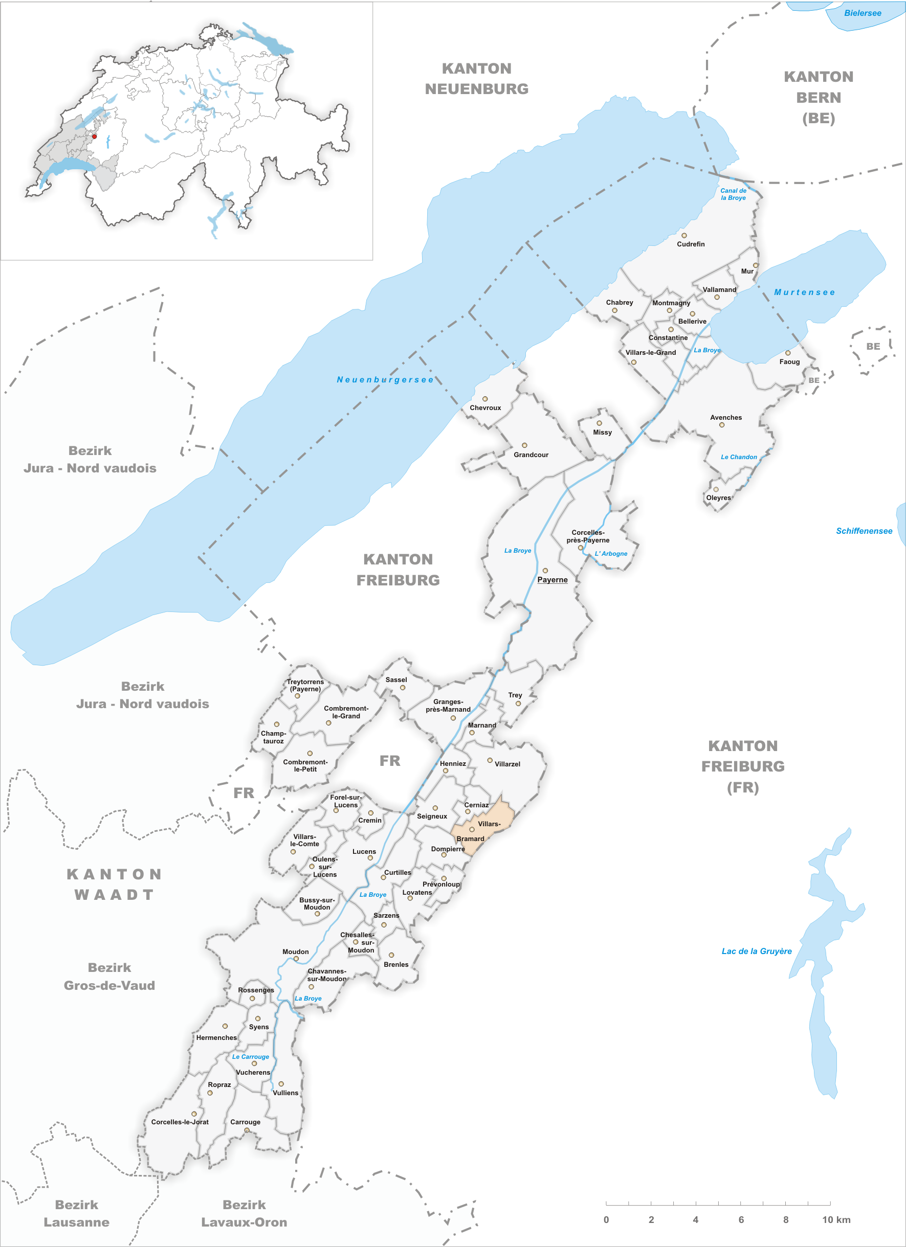 Municipality Villars-Bramard